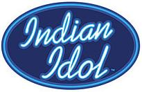 Indian_idol_logo